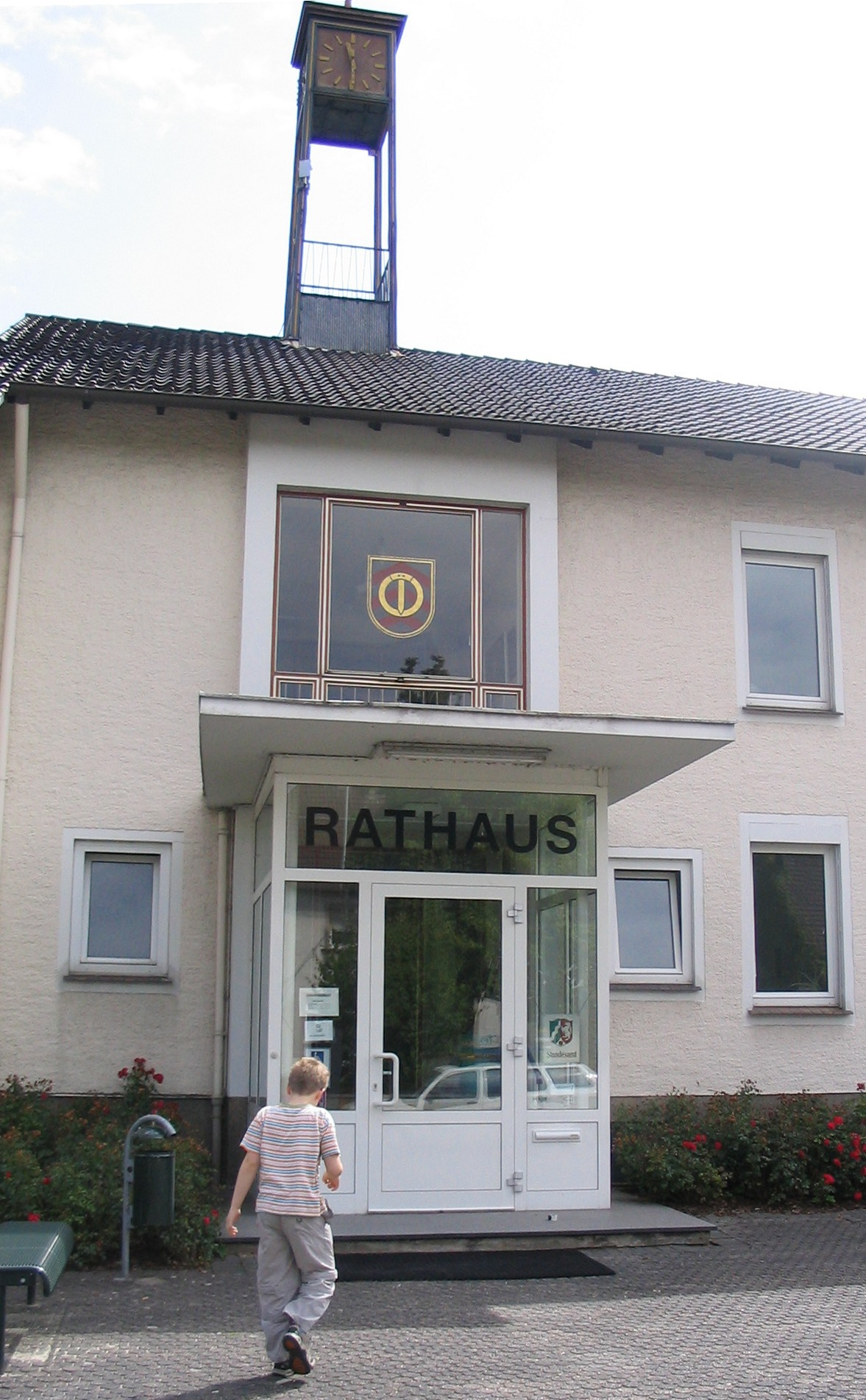 Town Hall of town of Spenge, District of Herford, North Rhine-Westphalia, Germany.